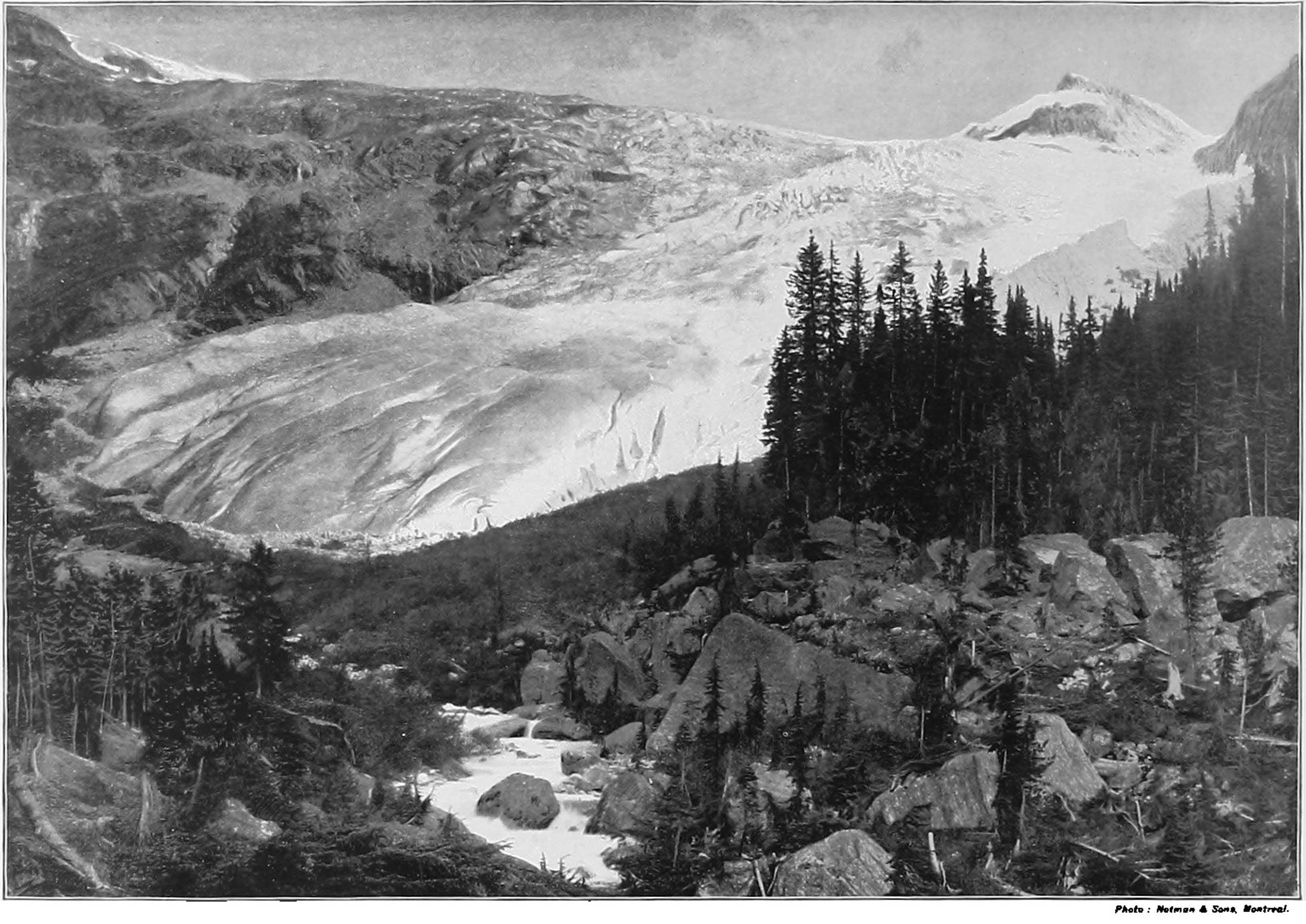 THE GREAT GLACIER. CANADA. Among ihe many splendid ice-sheets of the Canadian Rockies the " Great Glacier." by virtue of its depth and extent, fully justifies its name. Like so many of the other wonders and beauties of the Rocky Mountains which were long utterly unknown save to the rare Indian or trapper, the Great Glacier has now been brought well within the circuit of tourist travel by the Canadian Pacific Railway, which crosses the Rockies at Kicking Horse Pass before descending into the watershed of the Fraser river in British Columbia. The smooth rocks on the left of the Glacier seem to indicate that the ice stream had at one lime a more extended area than at present.